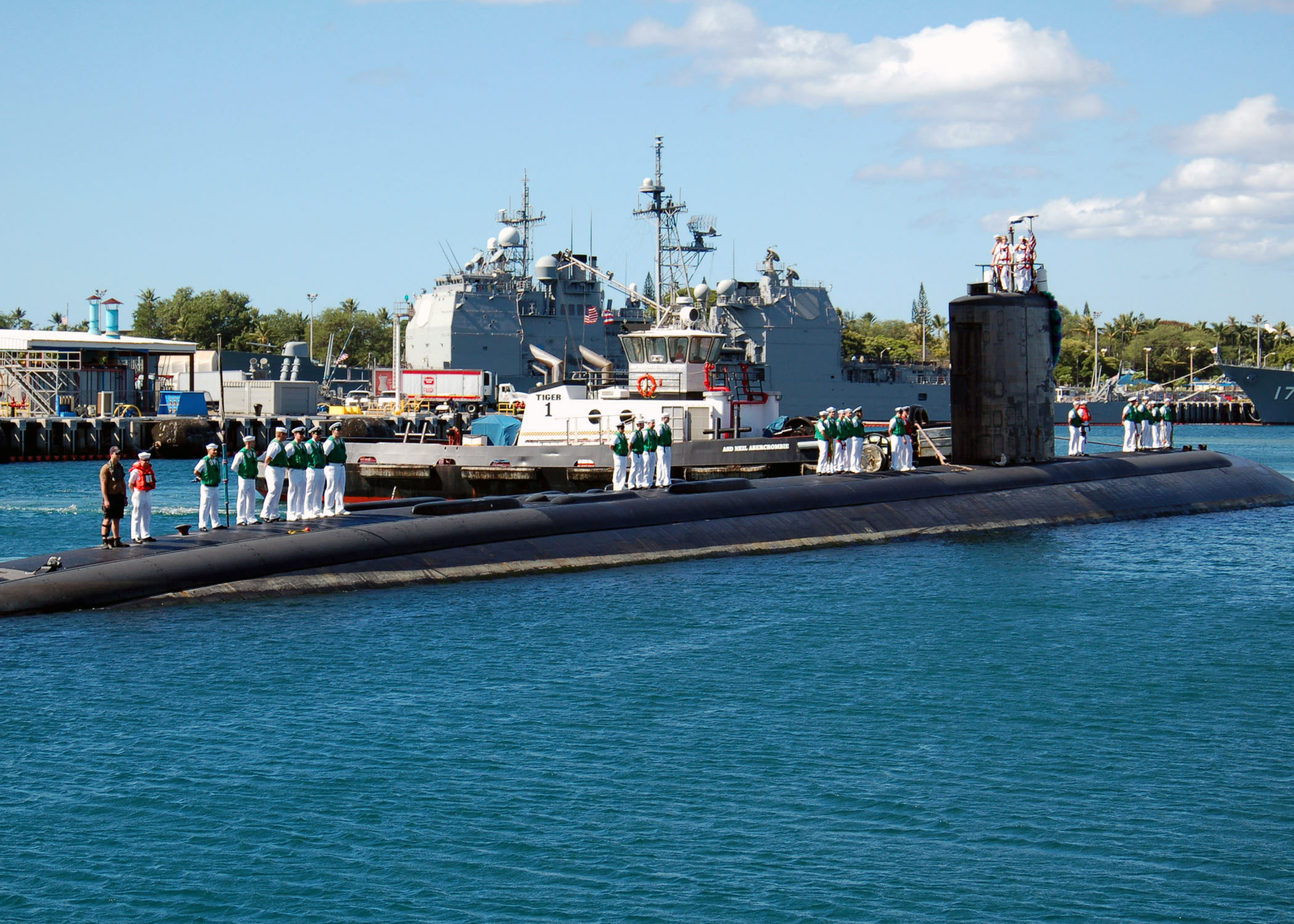 PEARL HARBOR, Hawaii (Oct. 24, 2007) - The Los Angeles-class fast attack submarine USS Charlotte (SSN 766), comes home to Pearl Harbor, after having completed a two-year Depot Modernization Period at Norfolk Naval Shipyard in Portsmouth, Va. U.S. Navy photo by Mass Communication Specialist Seaman Apprentice Luciano Marano (RELEASED)